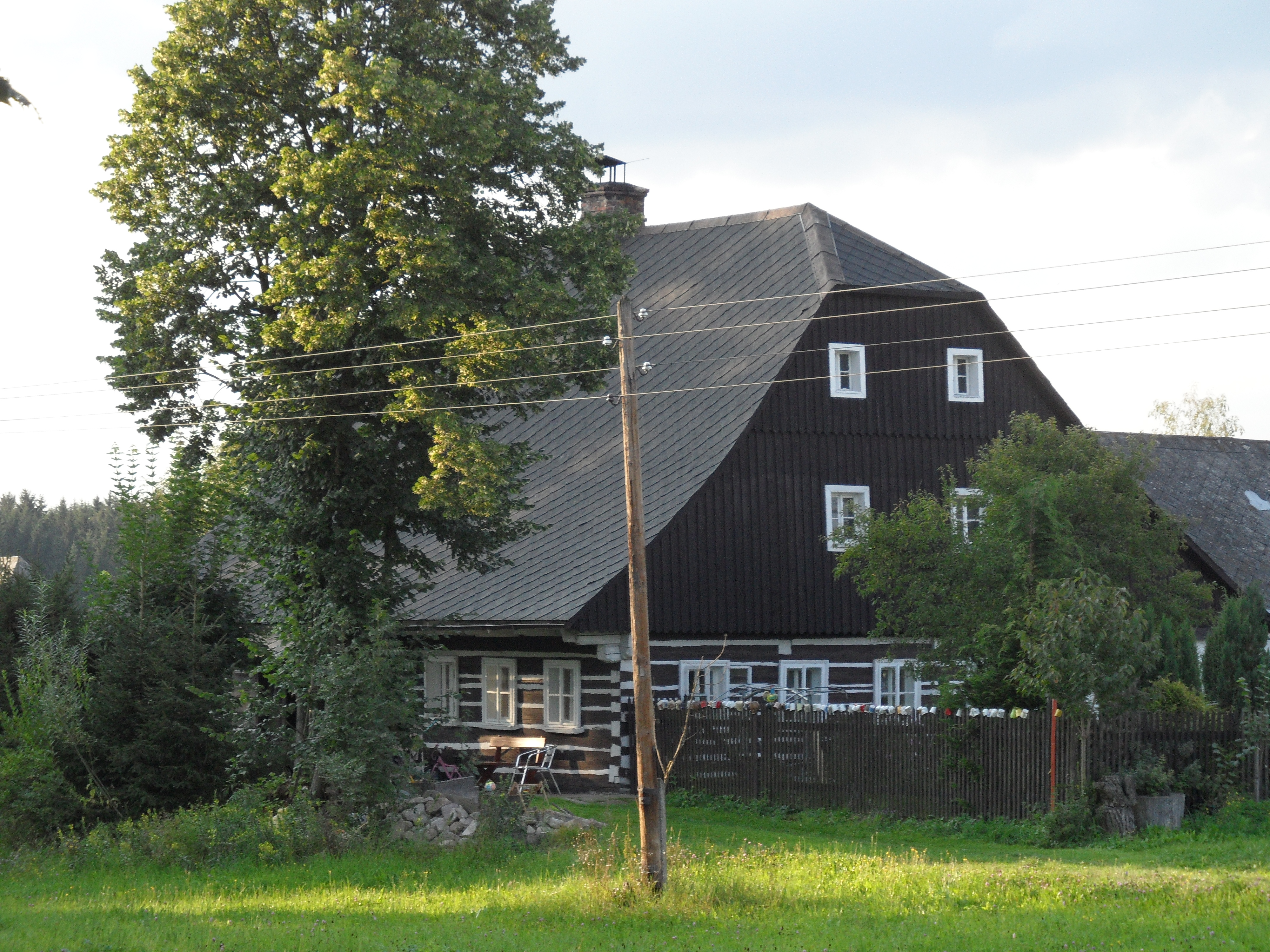 Dolní Orlice (Červená Voda) A. Great Cottage, Ústí nad Orlicí District, the Czech Republic.